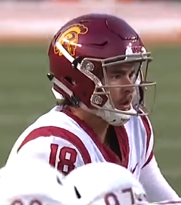 JT Daniels vs Texas, Sept 15, 2018